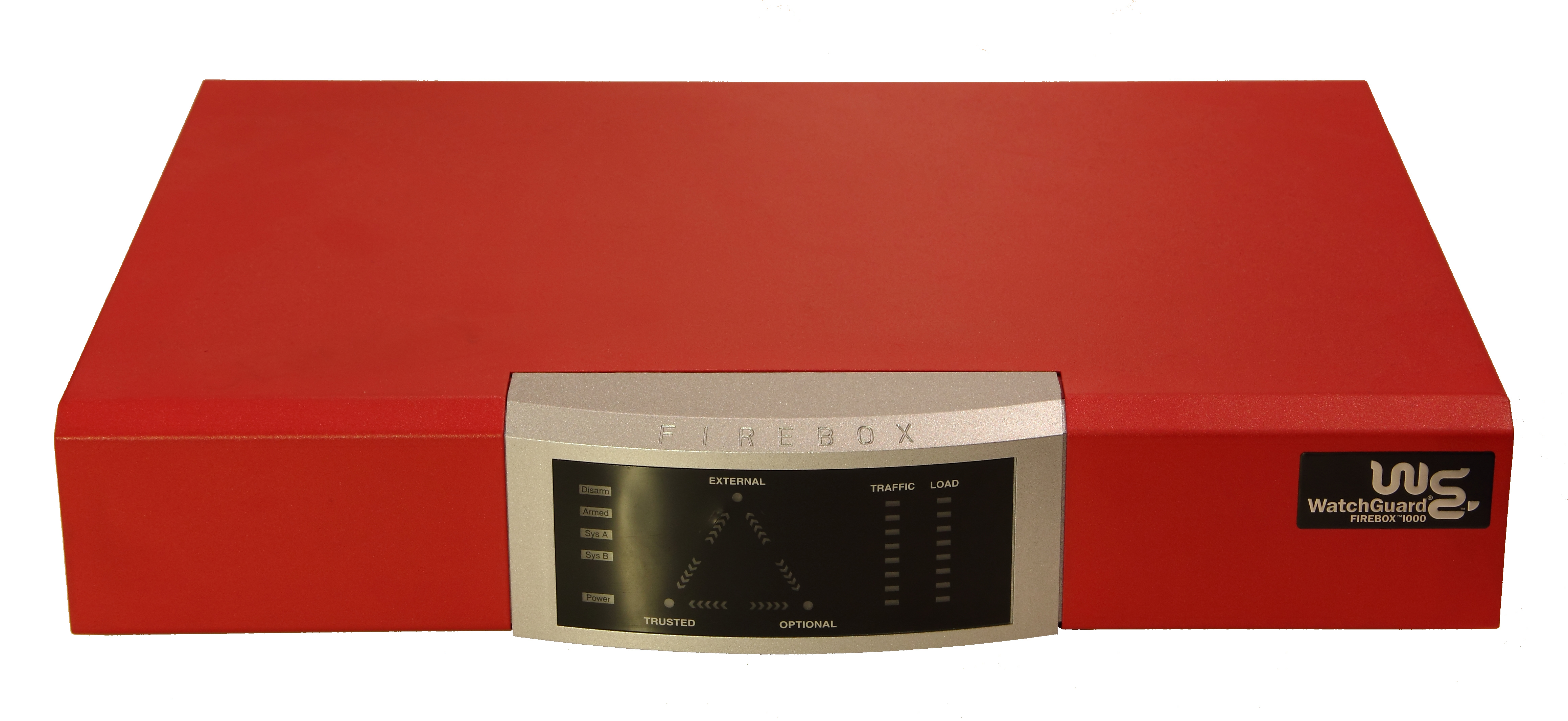 The front of a WatchGuard Firebox 1000 firewall